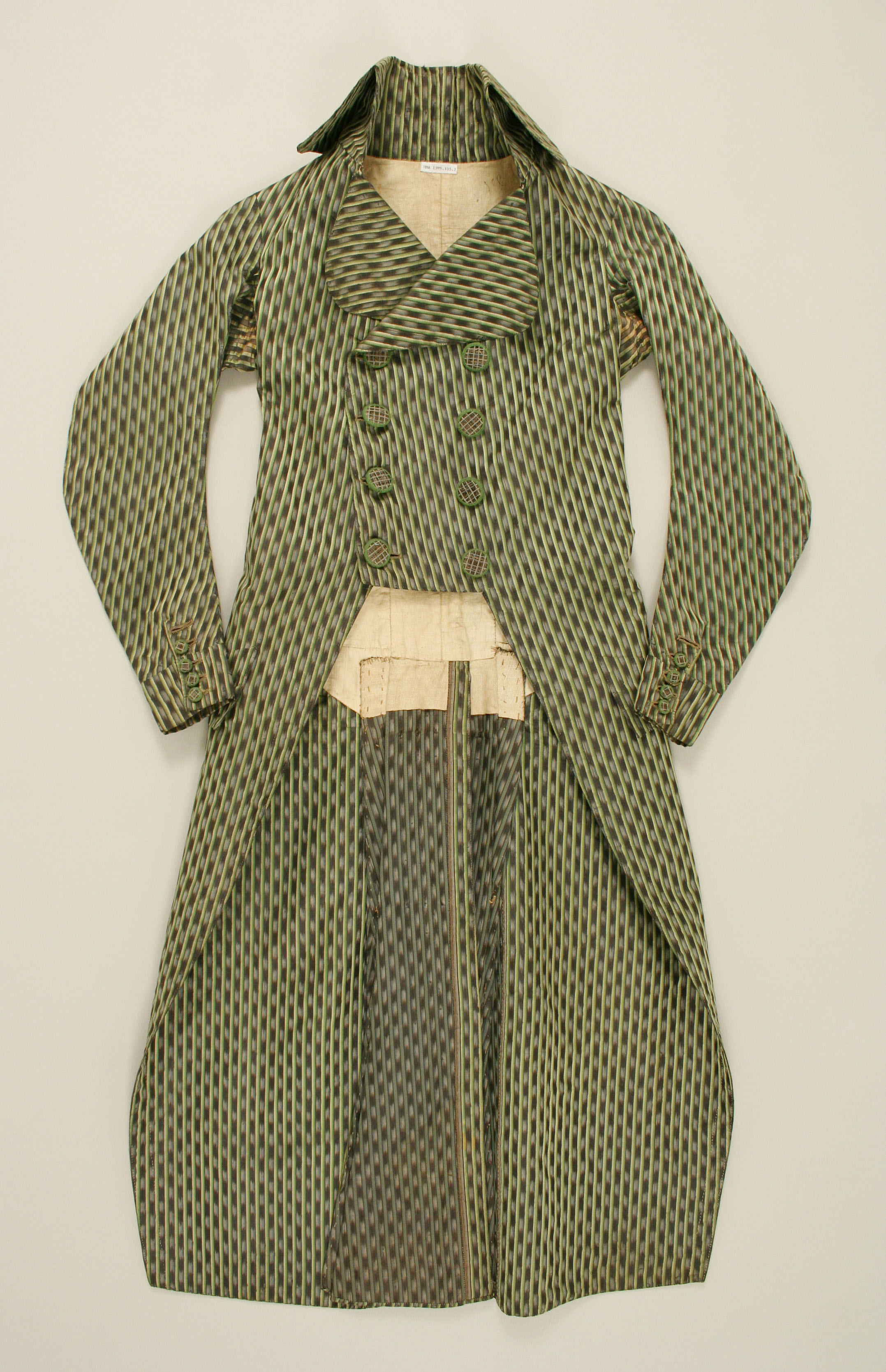 French; Coat